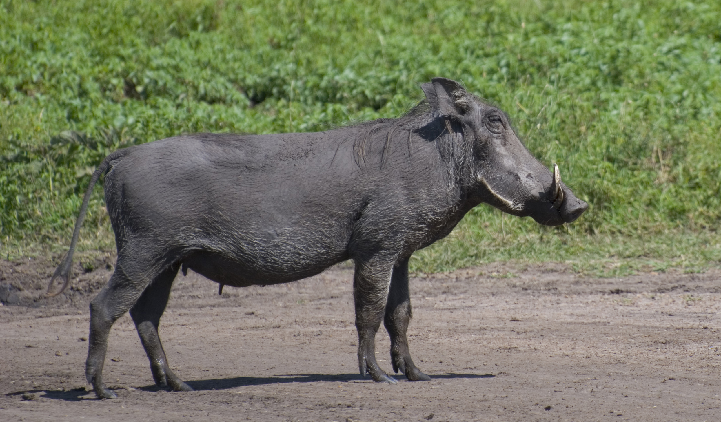 Warthog at Masai Mara, Kenya